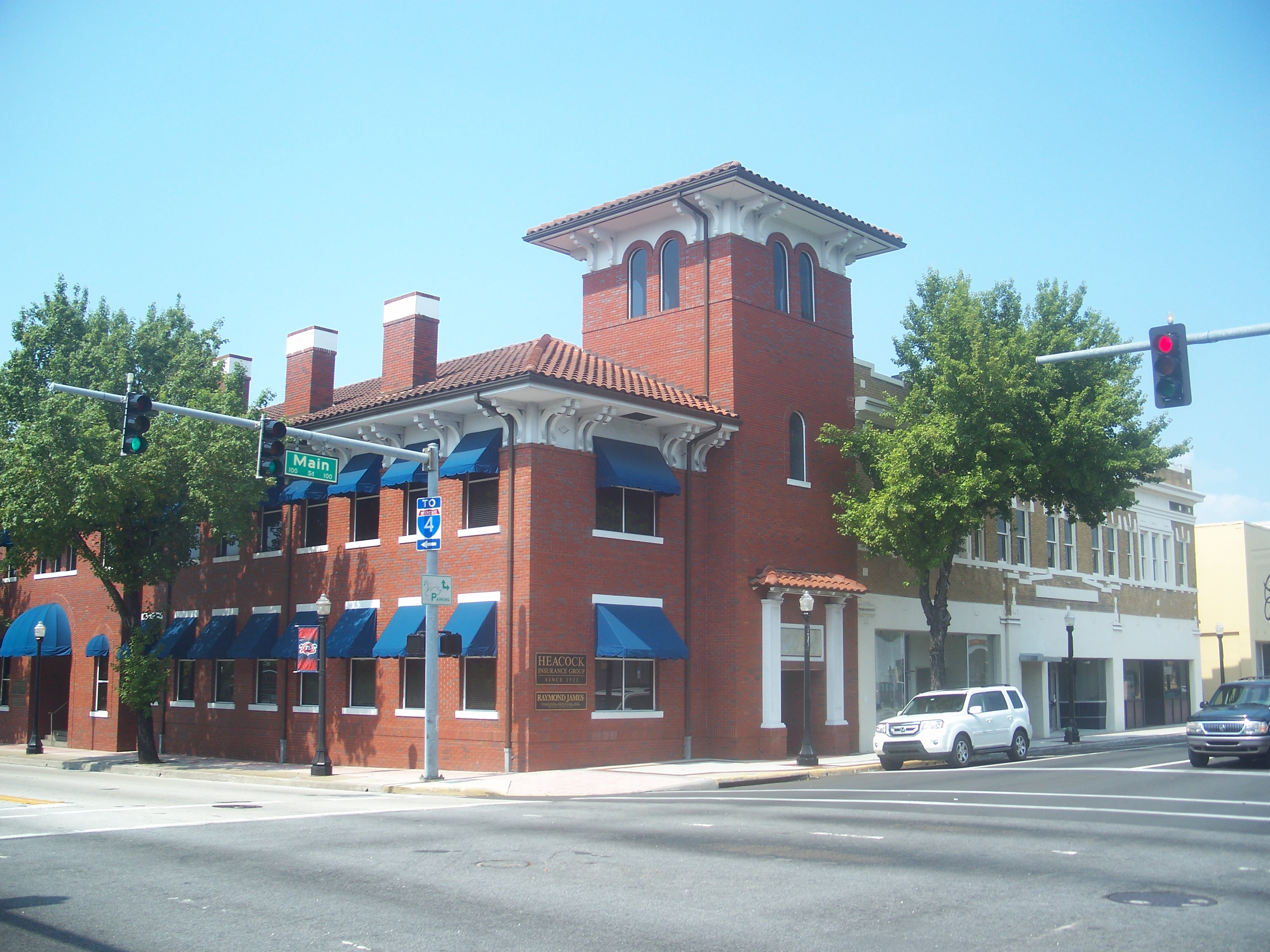 Lakeland: Munn Park Historic District: Old city hall